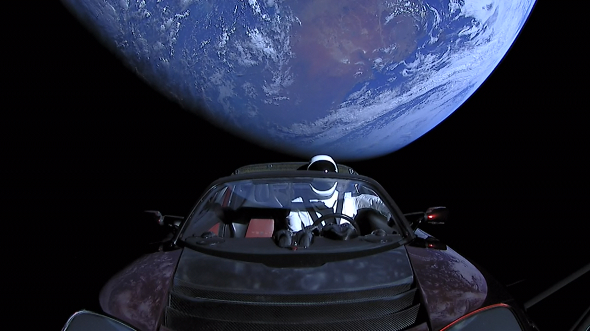 Elon Musk's Tesla Roadster, with Earth in background. "Starman" mannequin wearing SpaceX Spacesuit in driving seat. Camera mounted on external boom.